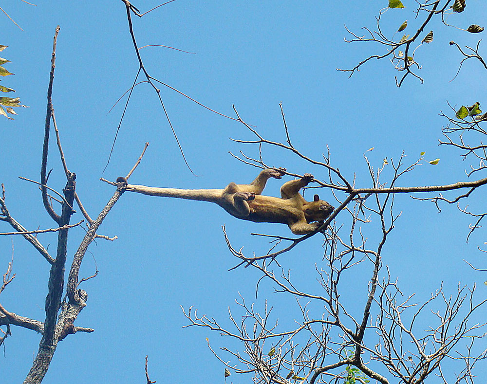 A Kinkajou showing off tree-top acrobatics in southwestern Nicaragua. In context at